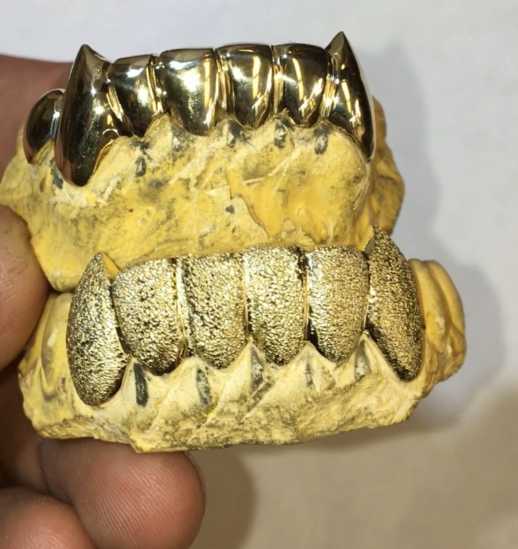 Two bottom teeth styles of grillz; top is clean gold and the bottom is diamond dust.